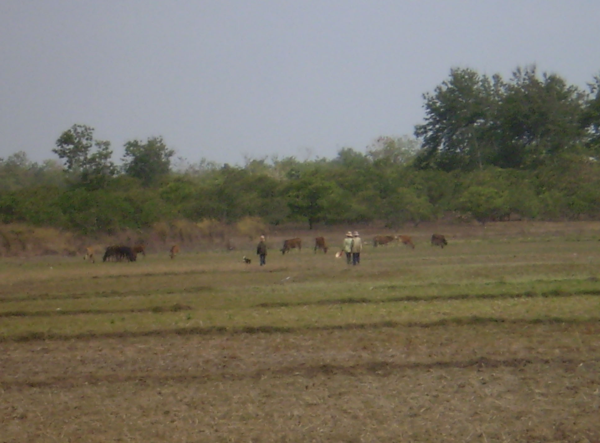 Vietnam Central Highlands steppe in dry season